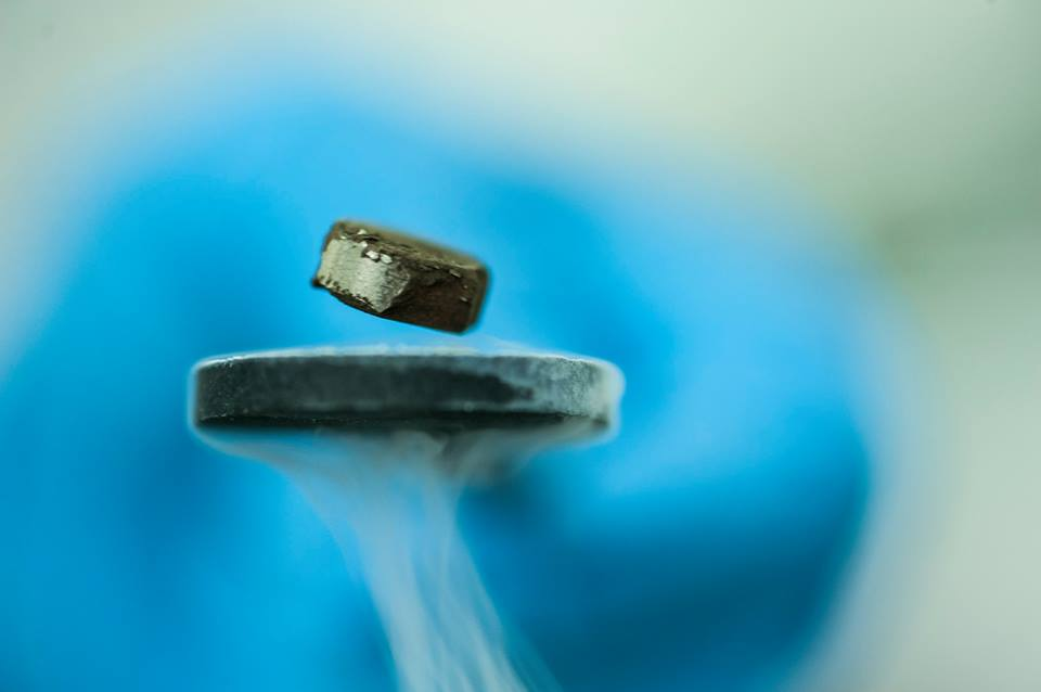 superconductor levitation